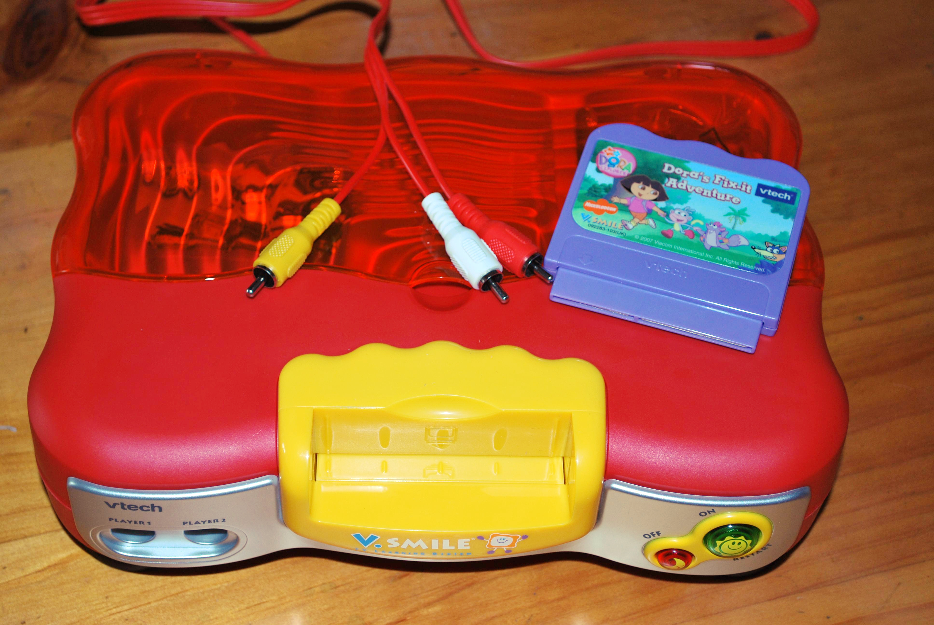 2008 V-Smile with the 'Cars' colour scheme.